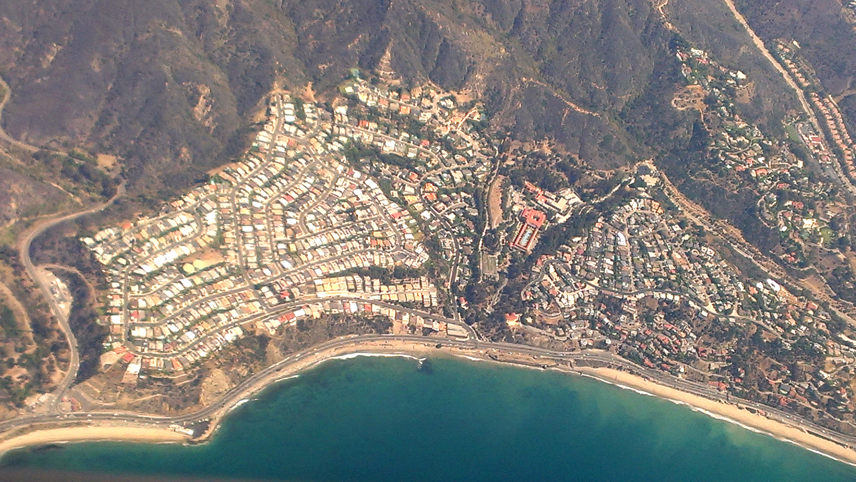 Pacific Palisades with beach and Getty Villa in center